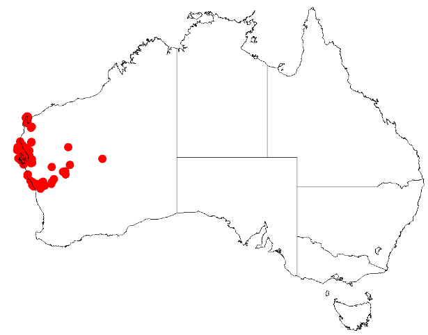 Scaevola tomentosa occurrence data downloaded from Australasian Virtual Herbarium on 12 May 2019